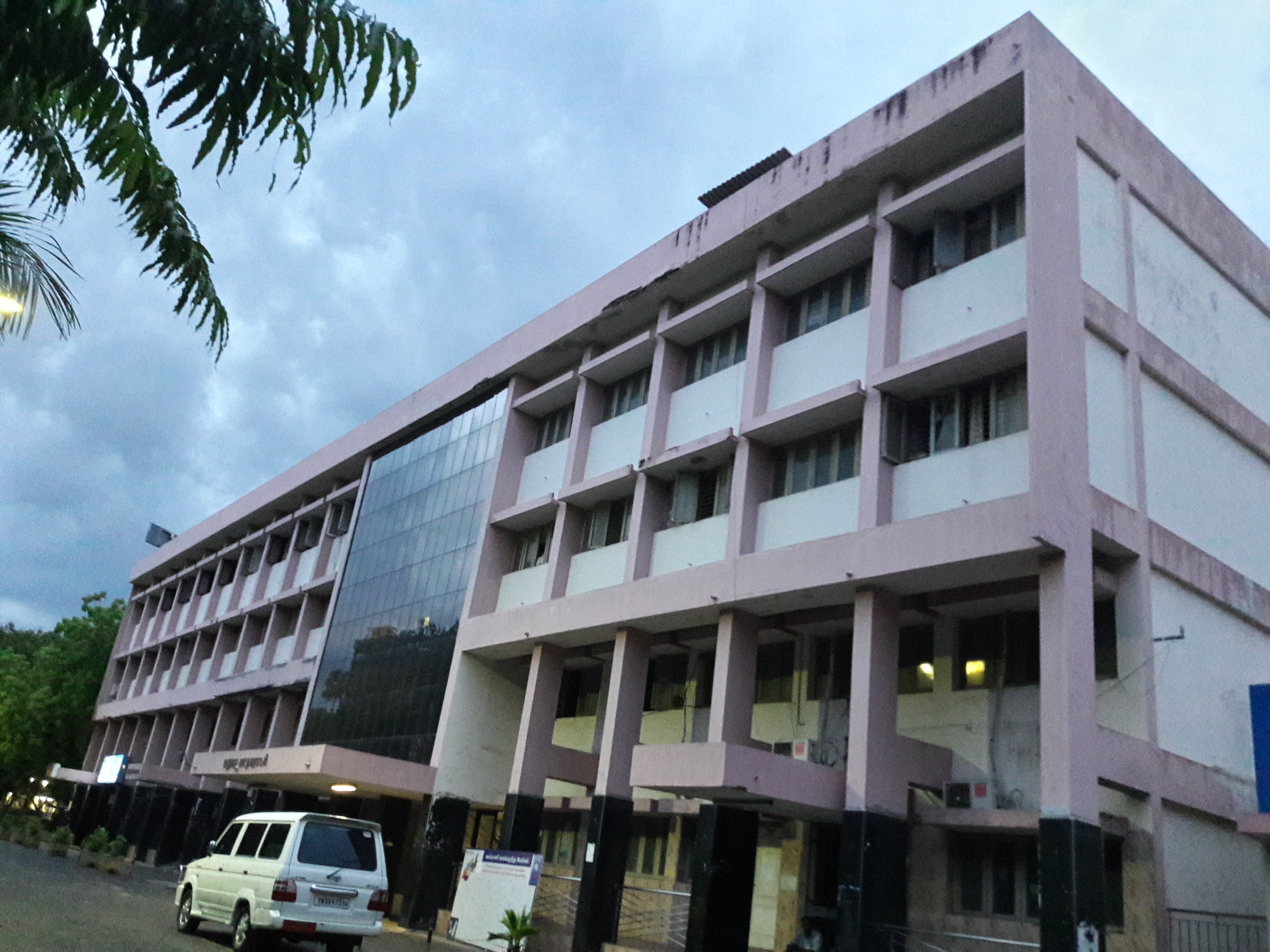 Office Complex